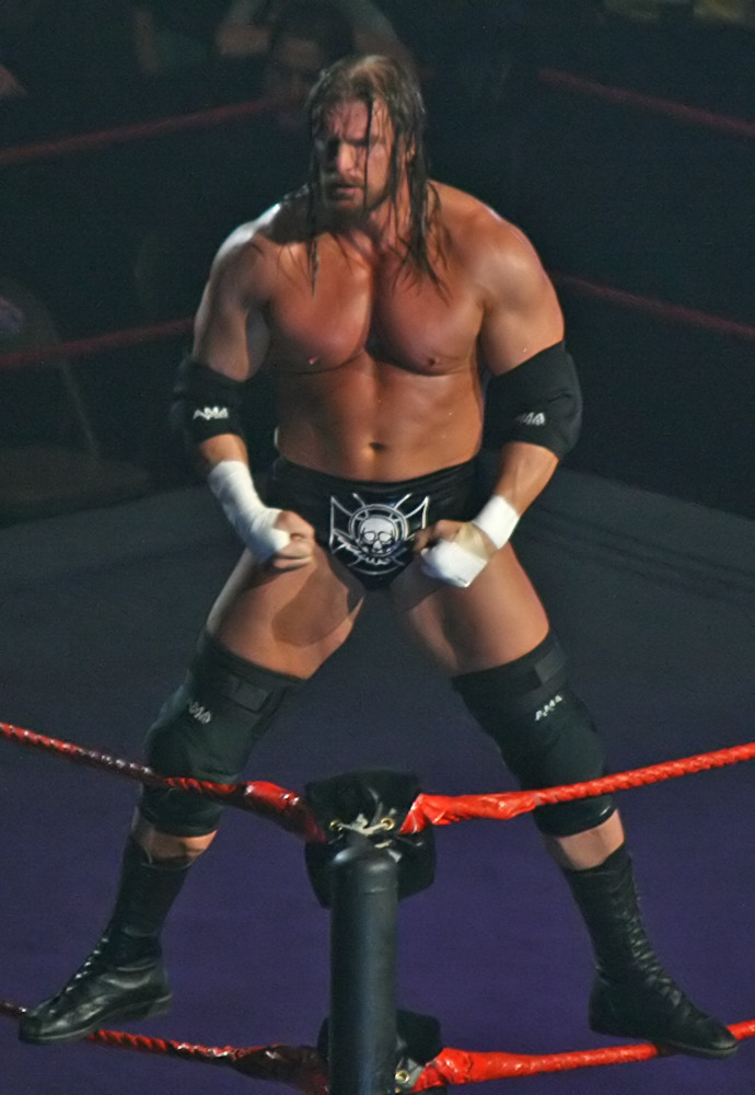 Triple H (Paul Michael Levesque) following his iconic ring entrance pose. Taken during the WWE Raw - Survivor Series Tour, at Rod Laver Arena, Melbourne Park, Melbourne, Australia. Triple H wrestled in the main event of the night, a tag-team bout involving Umaga & Randy Orton (reigning World Heavyweight Champion) vs Jeff Hardy & Triple H; the match was won by Triple H pinning Orton following a pedigree.